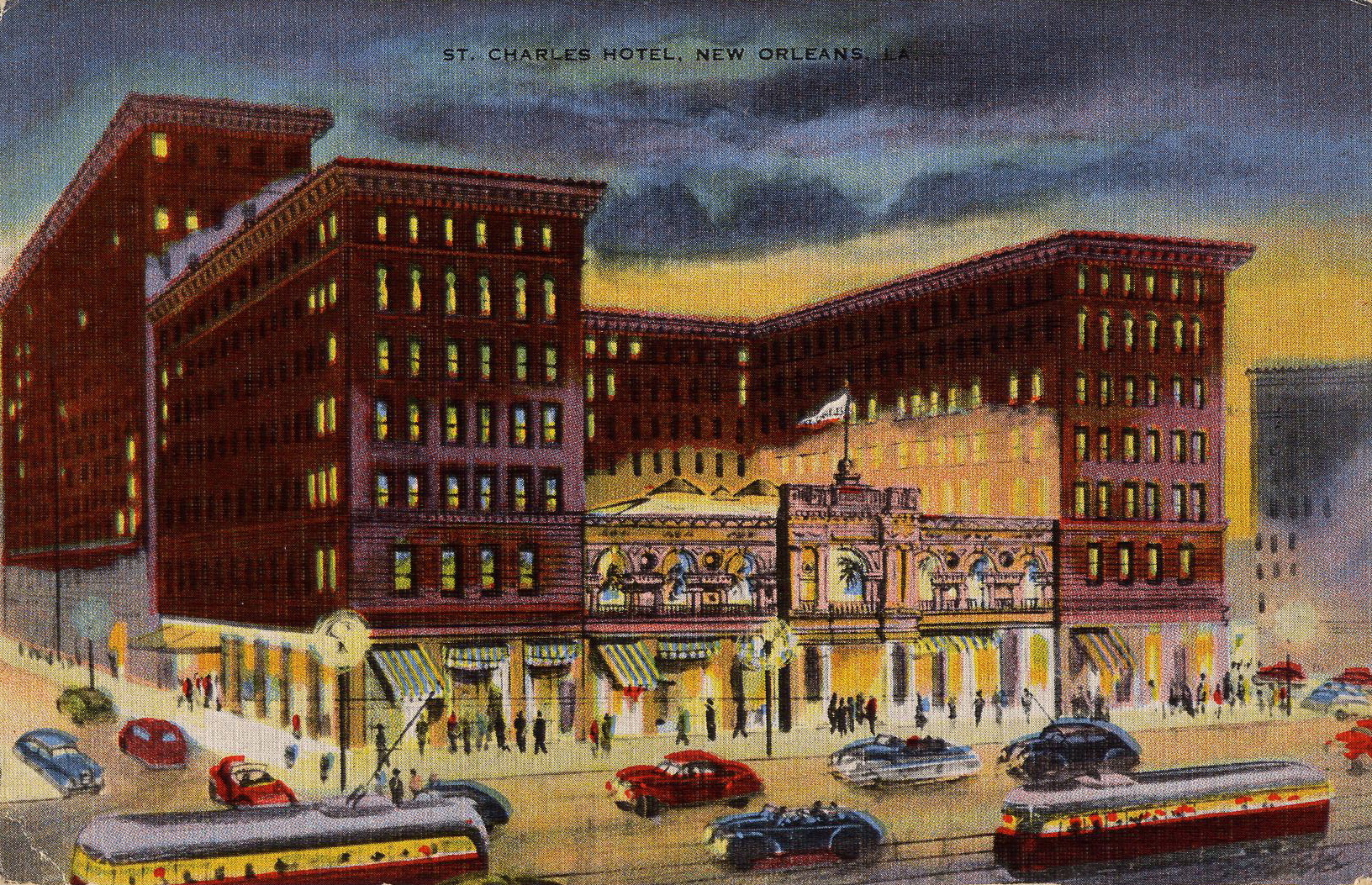 St. Charles Hotel, New Orleans, from postcard. This landmark hotel was on the Lake side of the 200 block of St. Charles, where the Place St. Charles skyscraper is now. It was one of the city's top hotels in the late 19th and early 20th century. Probably past its prime by the date of this card. The modernistic streetcars shown were a figment of the artist's imagination (possibly the artist was working from an image of the hotel from several decades earlier and attempting to make it look more up to date); the city's large stock of 1910s and 1920s streetcars were still on all lines until most were replaced by buses after WWII.